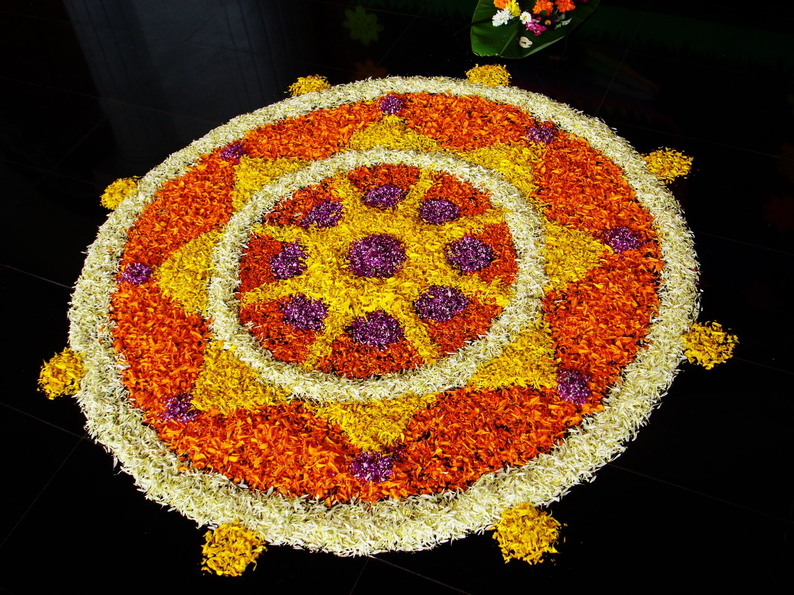 An Onapookkalam made as part of Onam